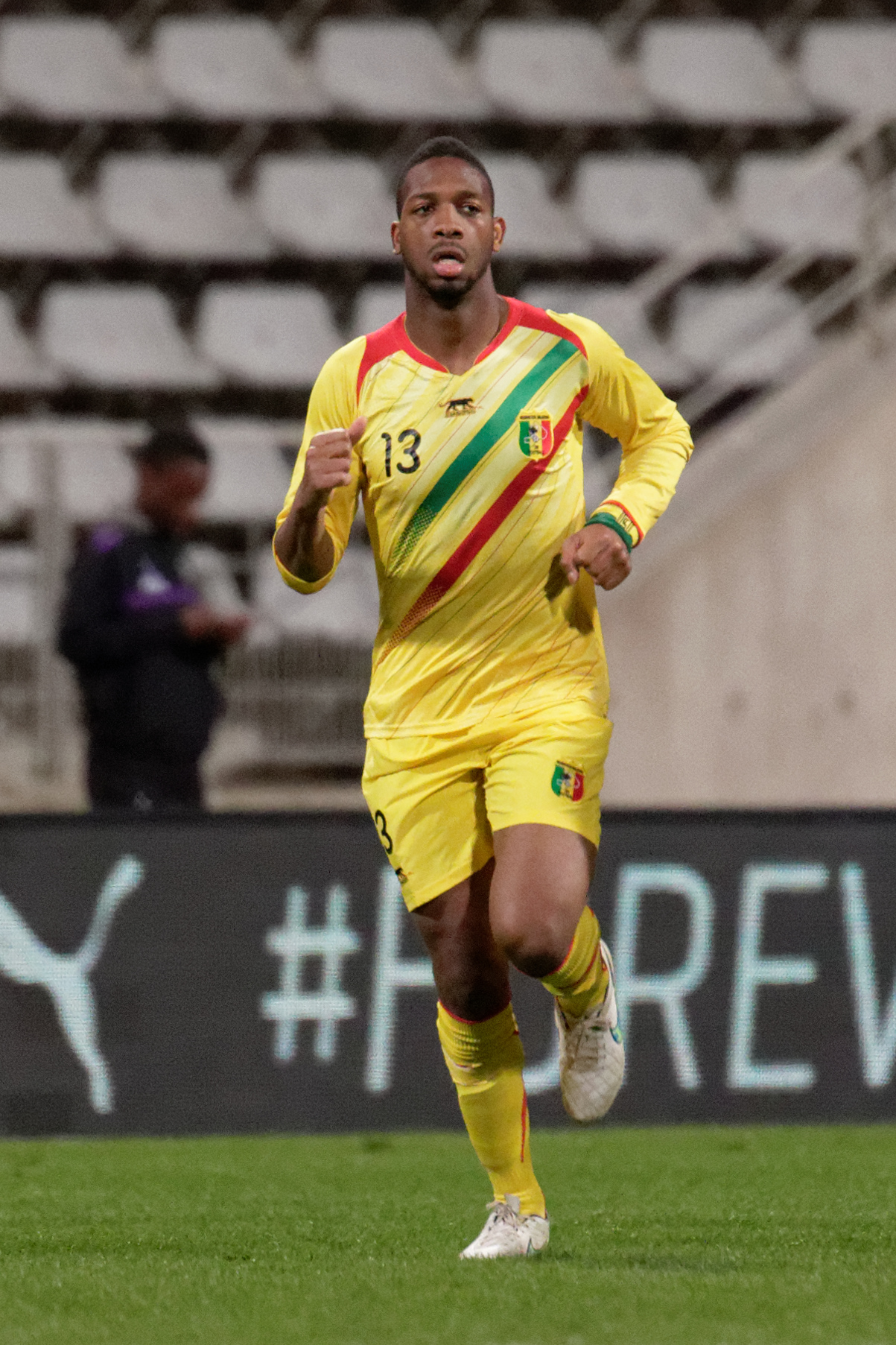 Mali vs Ghana, exhibition game at Paris, 31st March 2015.